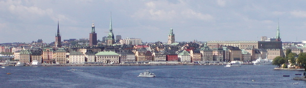 View of Gamla stan in Stockholm